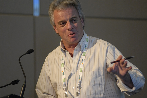 bob mcdonald at 5th world conference of science journalists